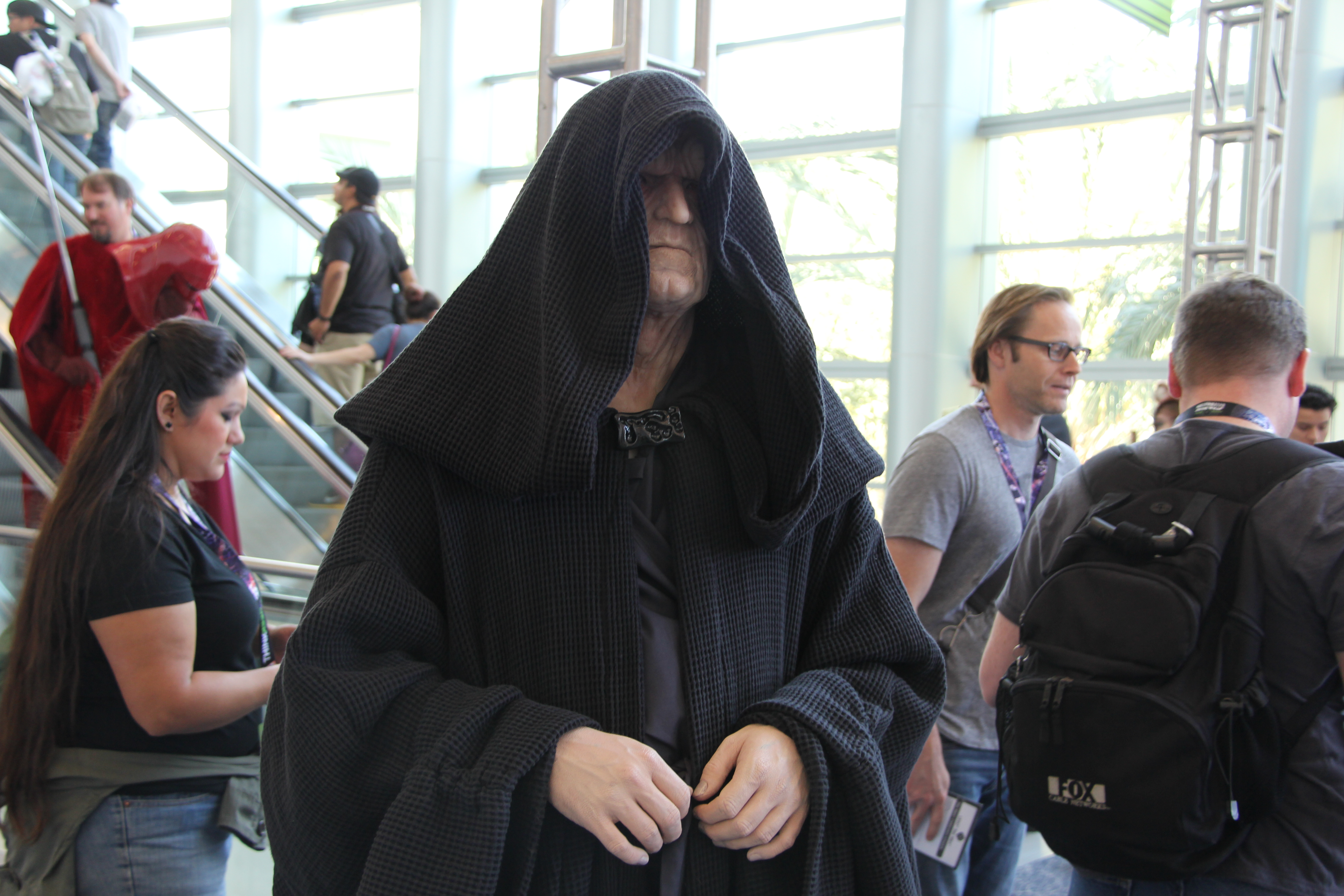 SWCA - Emperor Palpatine Star Wars Celebration in Anaheim, April 2015.